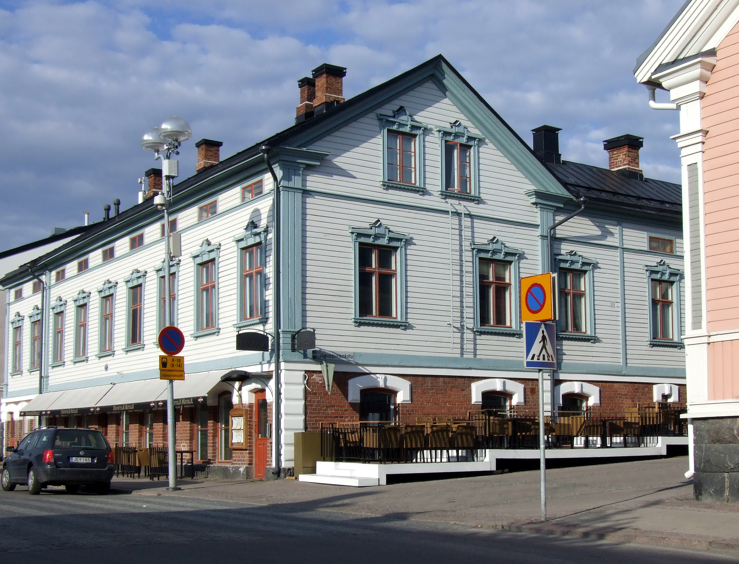 The Restaurant Matala in the Rantakatu street in Oulu, Finland